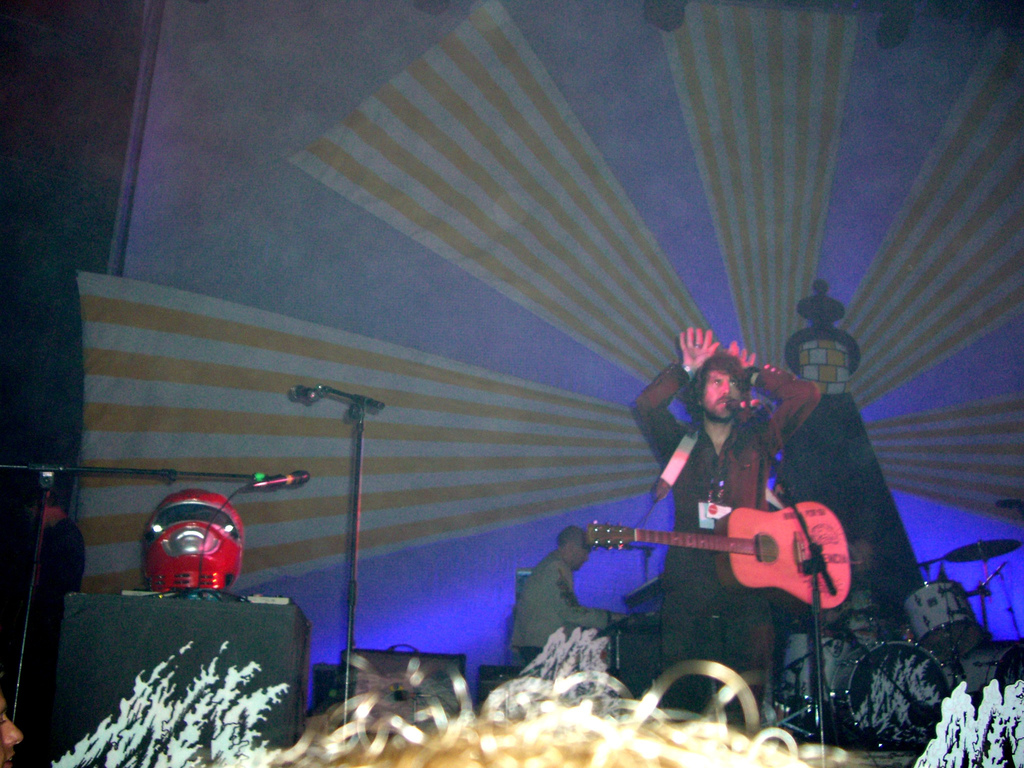 Super Furry Animals live in 2007.